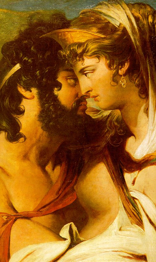 Barry, James ~ Jupiter & Juno on Mount Ida, detail, canvas, City Art Galleries, Sheffield, England.jpg